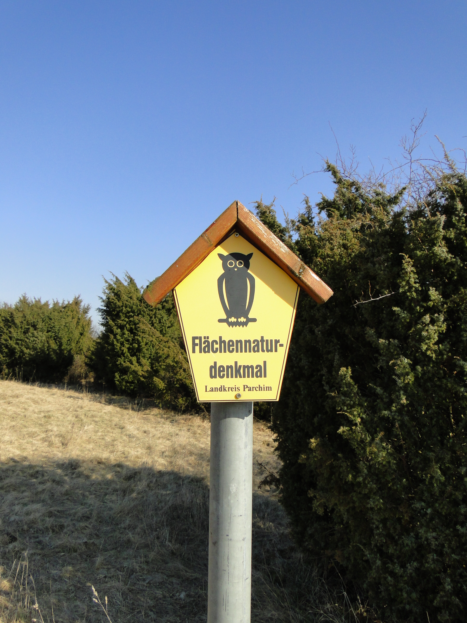 Natural monument „Teilfläche der Paradieskoppel Dobbertin“, a peninsula in the former lake Dobbiner See (today: Dobbiner Plage) in Dobbin/Dobbertin, district Parchim, Mecklenburg-Vorpommern, Germany